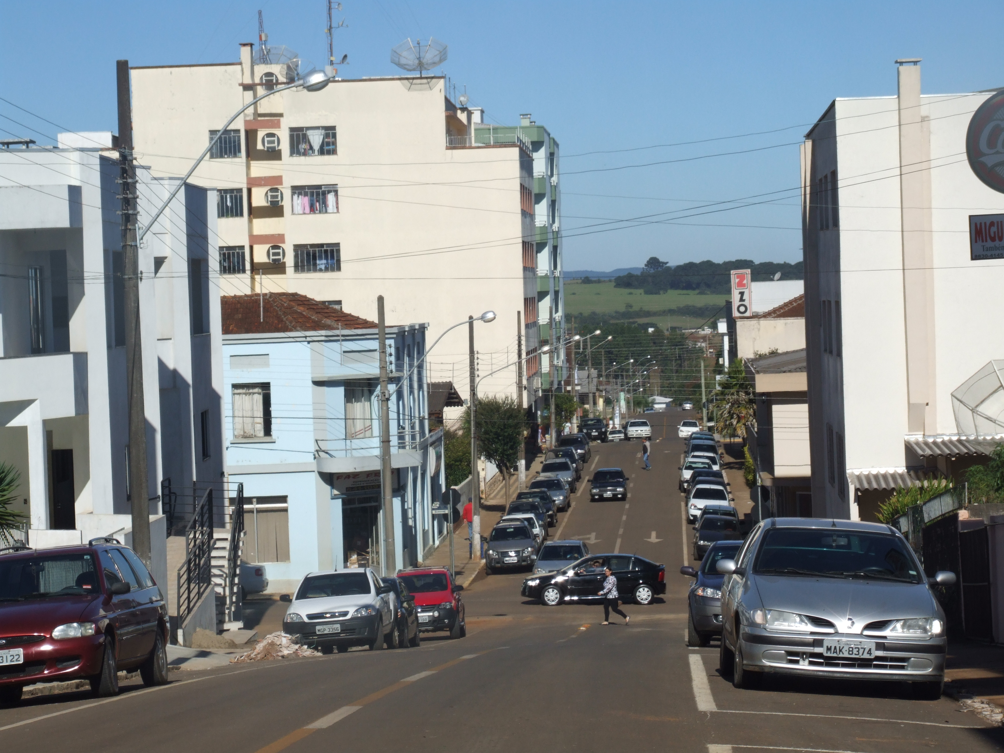 Campos Novos Downtown, Santa Catarina, Brazil